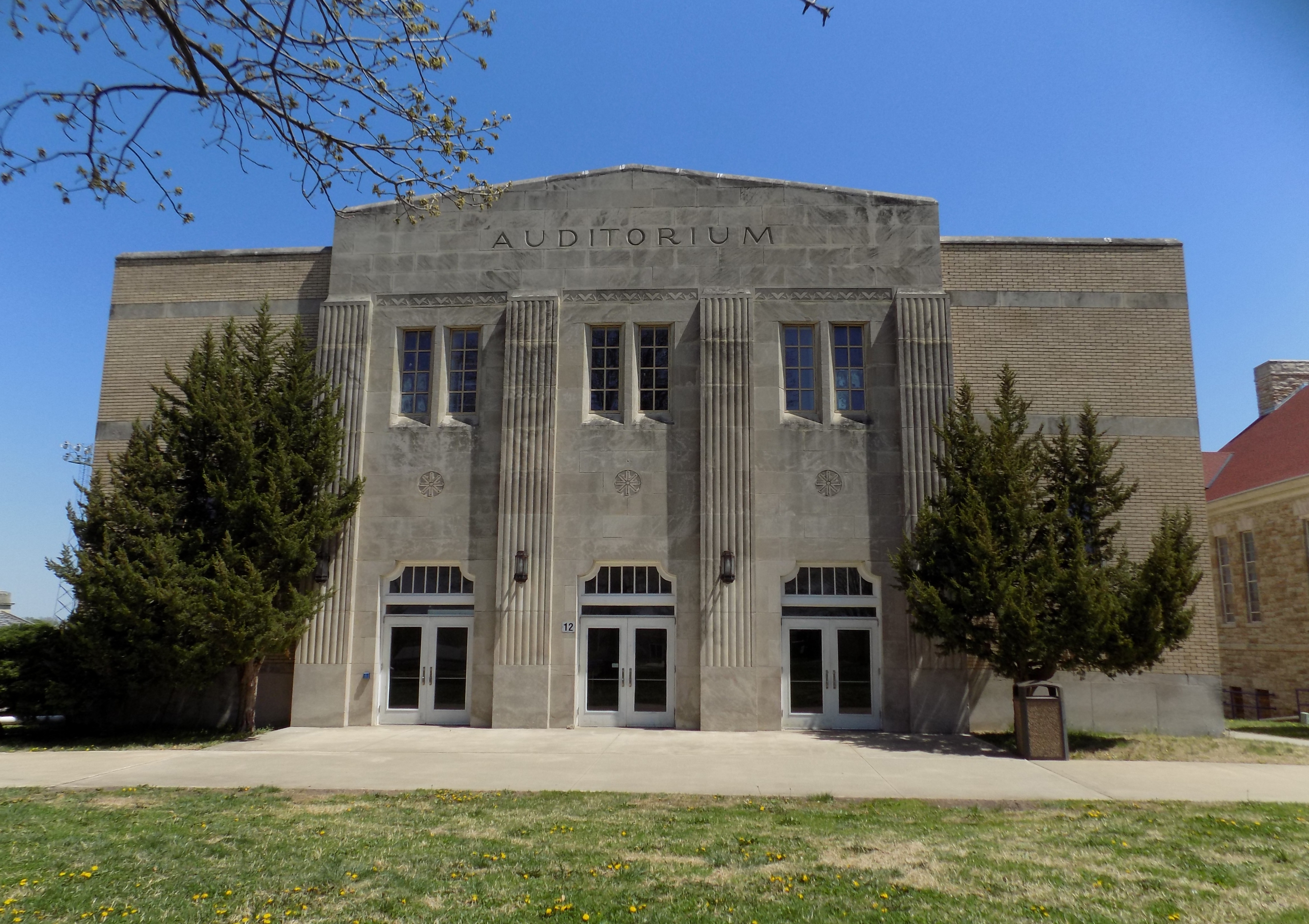 The Auditorium, located on the Haskell campus, which was built in 1933. Currently houses murals by Haskell alumnus Franklin Gritts (Cherokee), according to the school.